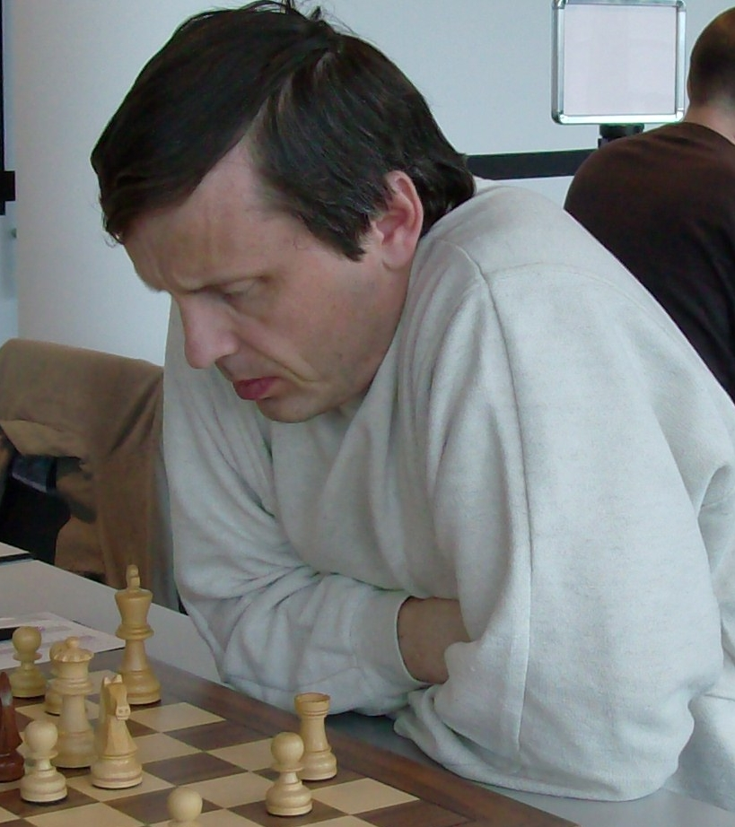 Petr Hába, chess grandmaster from the Czech Republic